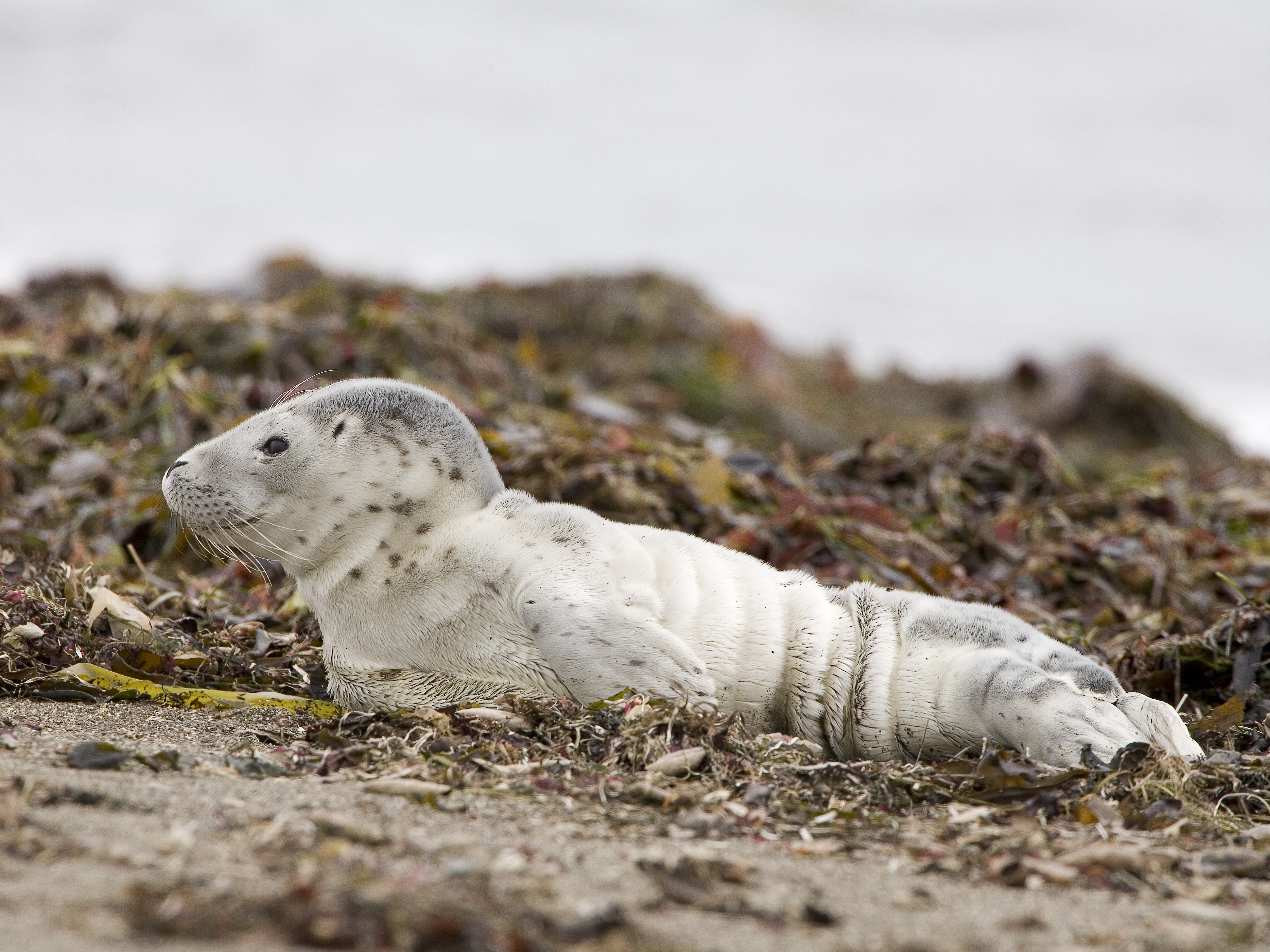 Harbor Seal Pup (Phoca vitulina), Villa Creek, Estero Bluffs, Cayucos, CA -- April 15, 2006 -- Technical: Canon 5D, 300/2.8 IS lens w/ EF 2X II Extender, 1/500, f/11.0, ISO 400, Adobe RGB, monopod A related close-up image is at